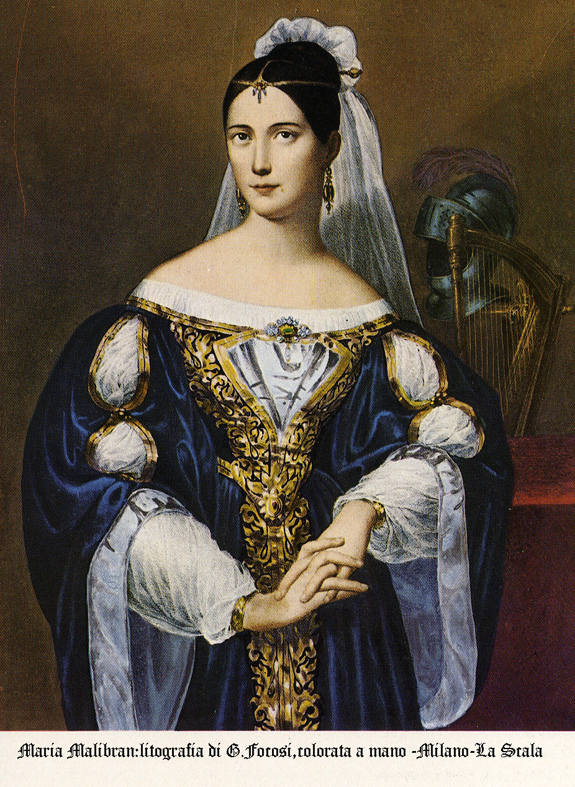 Malibran - La Scala 1834